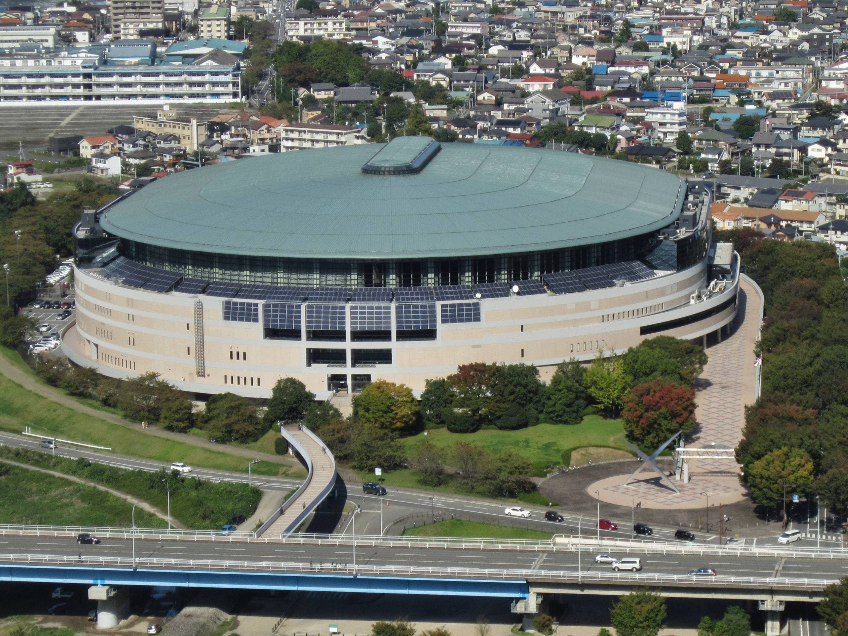 Green Dome Maebashi, View from Gunma Prefectural Government Building (Maebashi, Gunma).